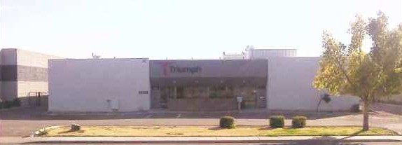 Triumph Engines on Alameda Drive in Tempe, Arizona United States